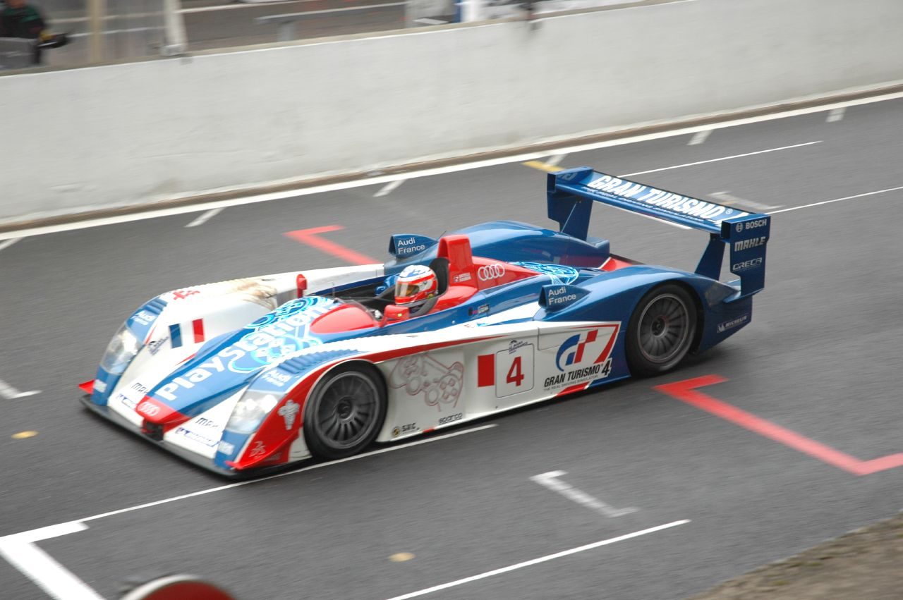 Stéphane Ortelli driving a ORECA Audi R8 at the 2005 1000km of Spa